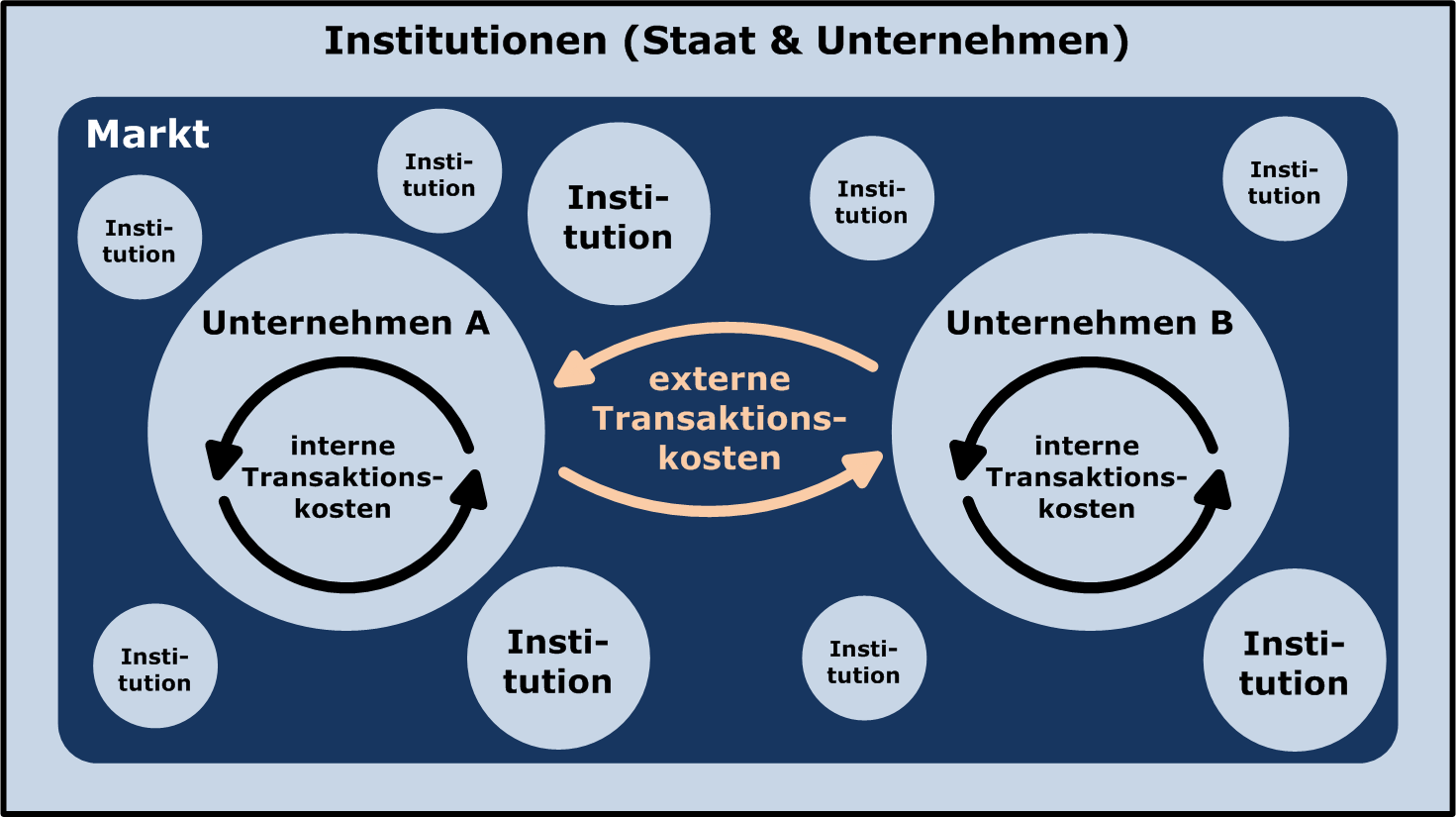 The model shows institutions and market as a possible form of organization to coordinate economic transactions. When the external transaction costs are higher then the internal transaction costs, the company will grow. If the internal transaction costs are lower than the external transaction costs the company will be downsized by outsourcing, for example.